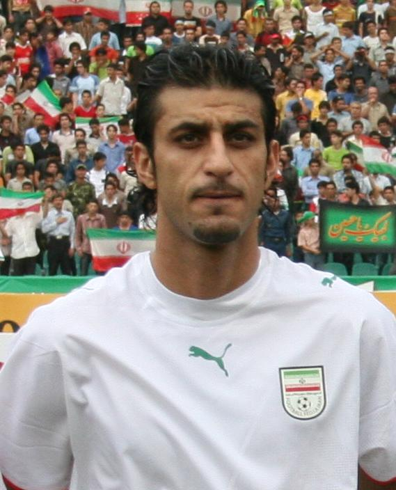 Depicted person: Hadi Shakouri – Iranian footballer